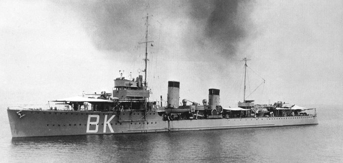 The Dutch Admiralen class destroyer Banckert in the Dutch Indies in 1934